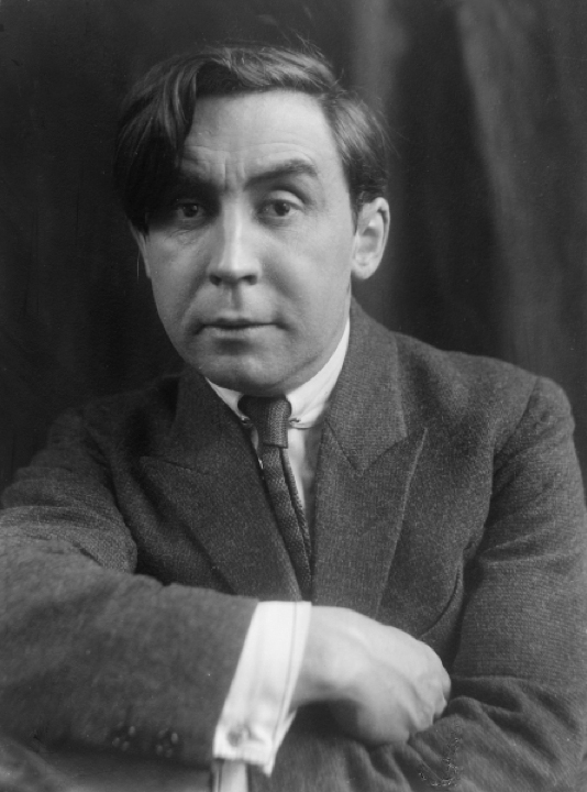 Albert Gleizes, c.1920, photograph by Pierre Choumoff